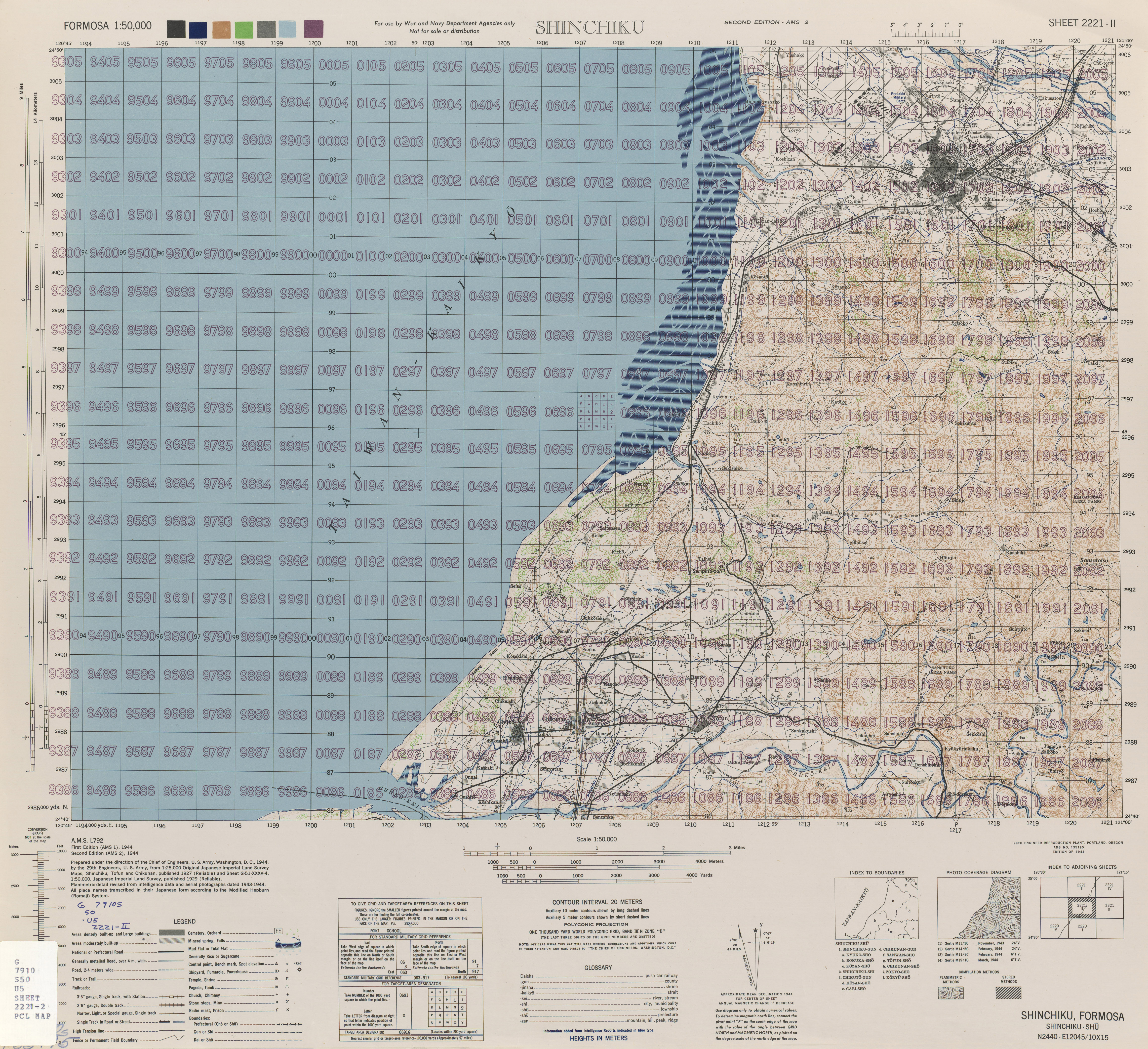 Map from Formosa (Taiwan) 1:50,000 AMS Series L792